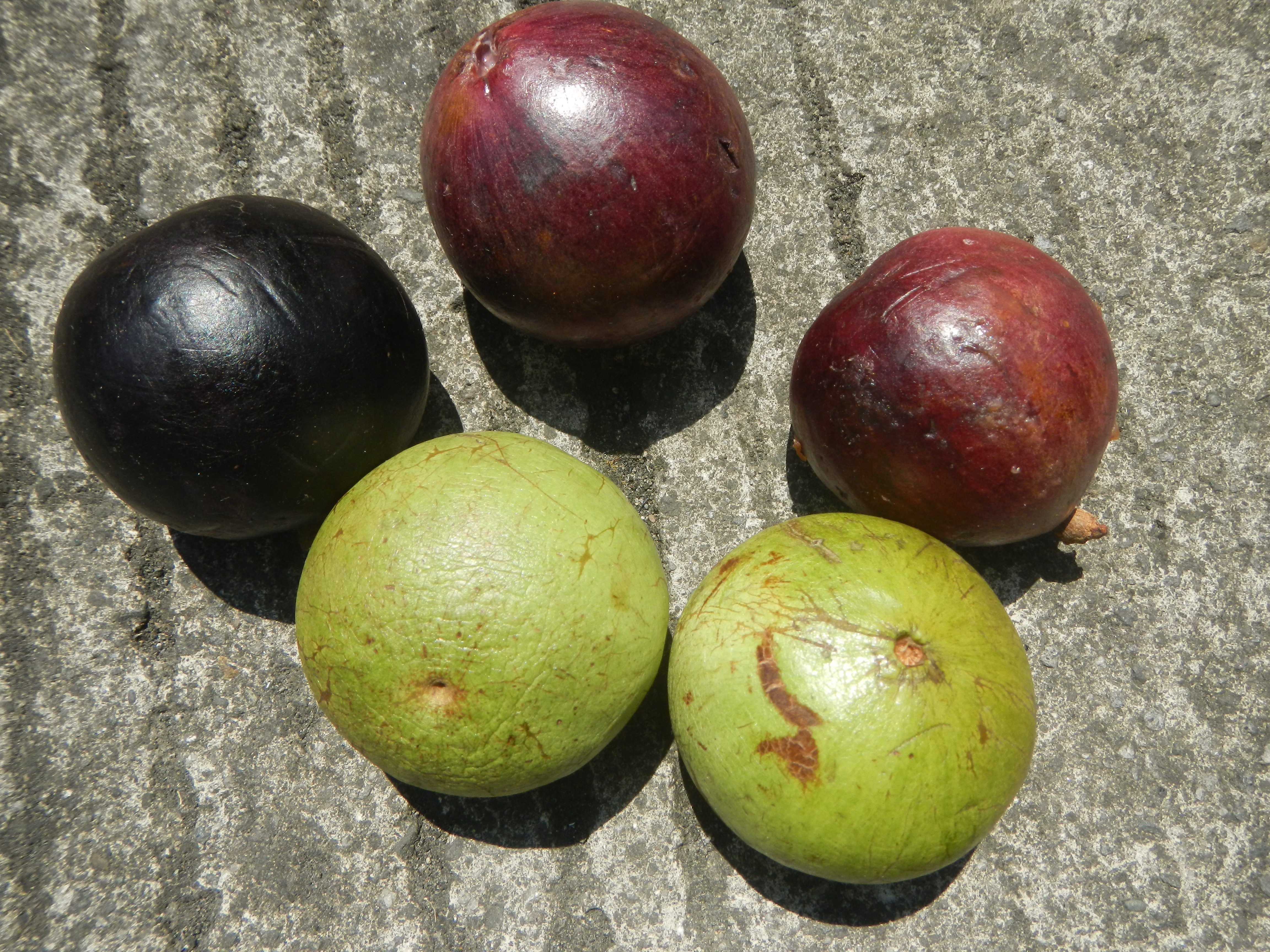 Cuisine of Bulacan food and fruits (Note: Judge Florentino Floro, the owner, to repeat, Donor Florentino Floro of all these photos hereby donate gratuitously, freely and unconditionally all these photos to and for Wikimedia Commons, exclusively, for public use of the public domain, and again without any condition whatsoever).